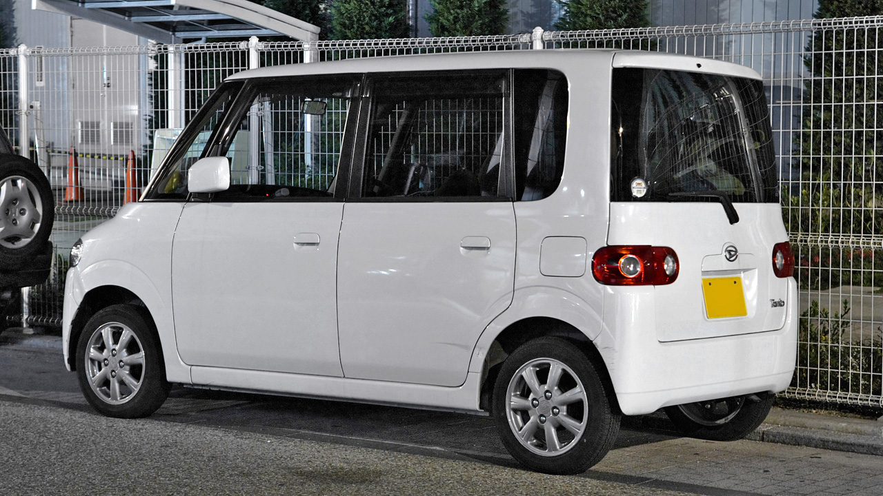 Daihatsu Tanto Happy Selection